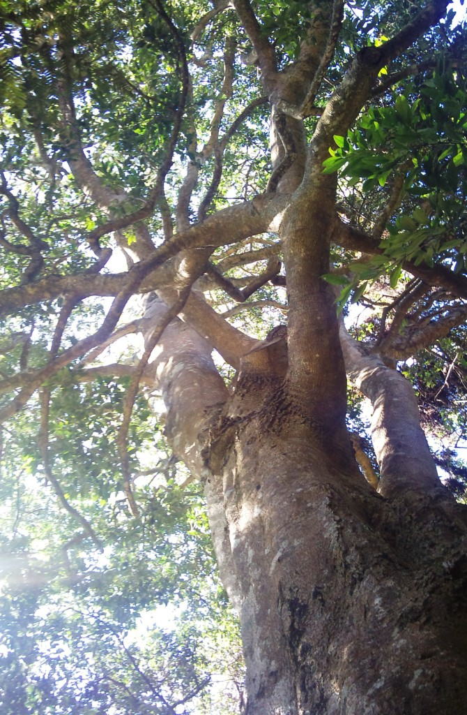 Giant Ilex mitis tree.